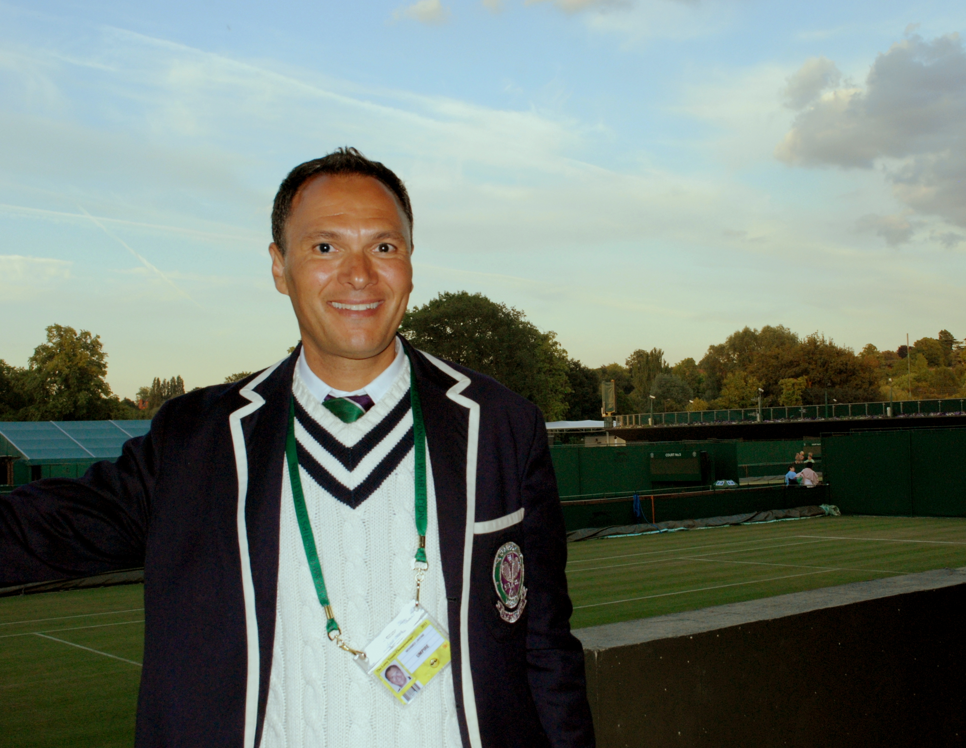 Semi-finals day, Wimbledon 2011.